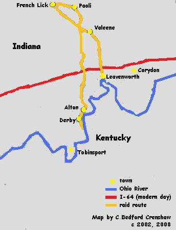 Map of the Hines' Raid. Originally used in the book Galloping Up the Glen, a Master's Thesis written by C. Bedford Crenshaw, and uploaded by same individual. This is a colorized version, for better appearance on Wikipedia pages